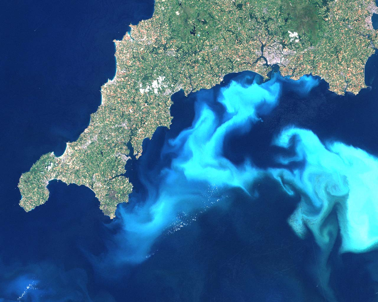 Under certain conditions, Emiliania huxleyi can form massive blooms which can be detected by satellite remote sensing. What looks like white clouds in the water, is in fact the reflected light from billions of coccoliths floating in the water-column. Landsat image from 24th July en:1999, courtesy of Steve Groom, Plymouth Marine Laboratory. This bloom attracted considerable coverage in the UK media.